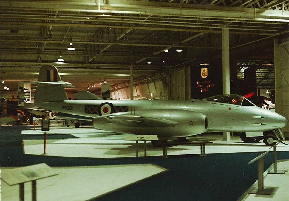 Gloster Meteor F8 at the RAF Museum, Hendon, 09/95. Scanned photo taken with a Canon AE-1 Program.